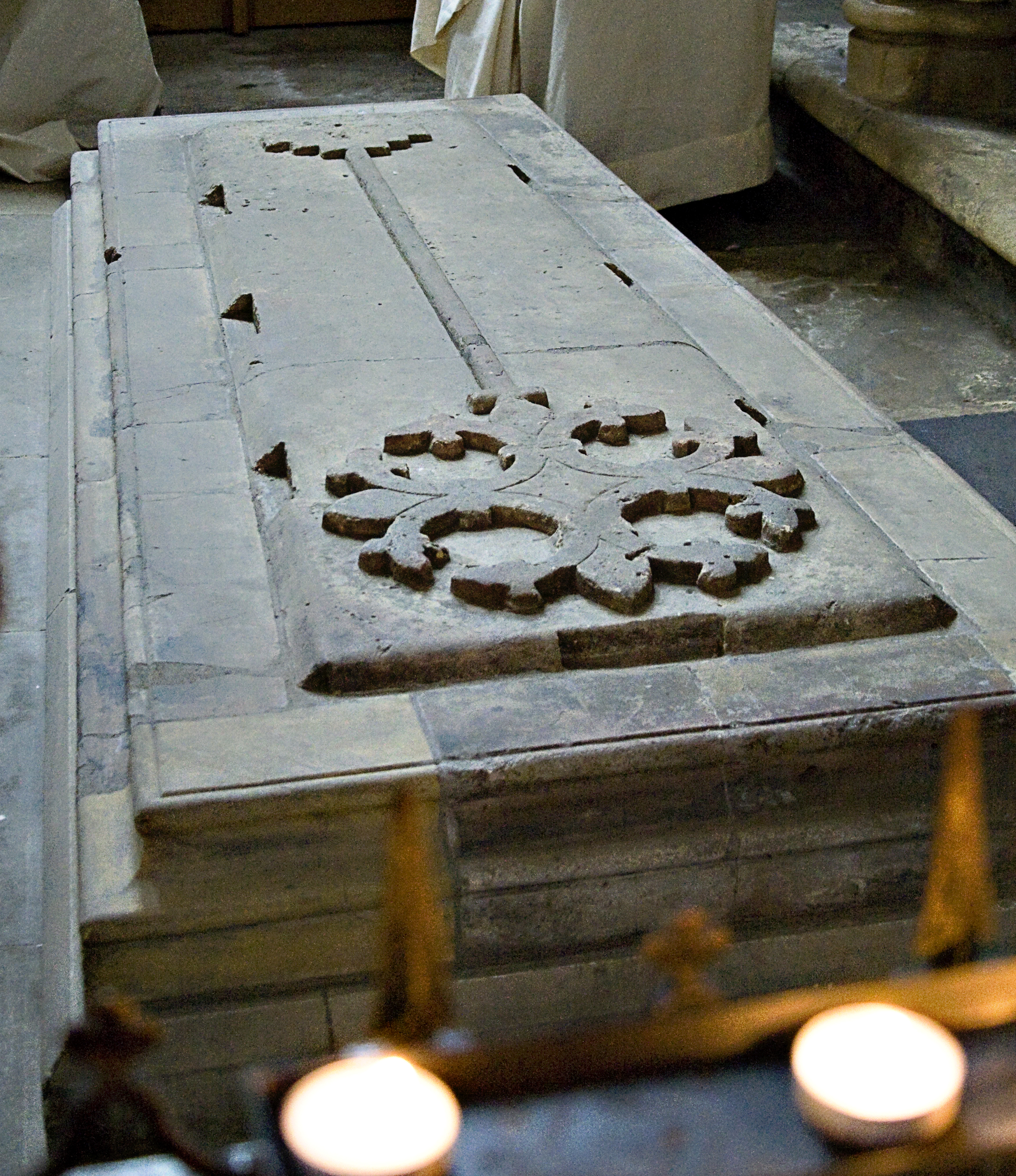 Tomb of Godfrey de Ludham, Archbishop of York, in York Minster, York, England